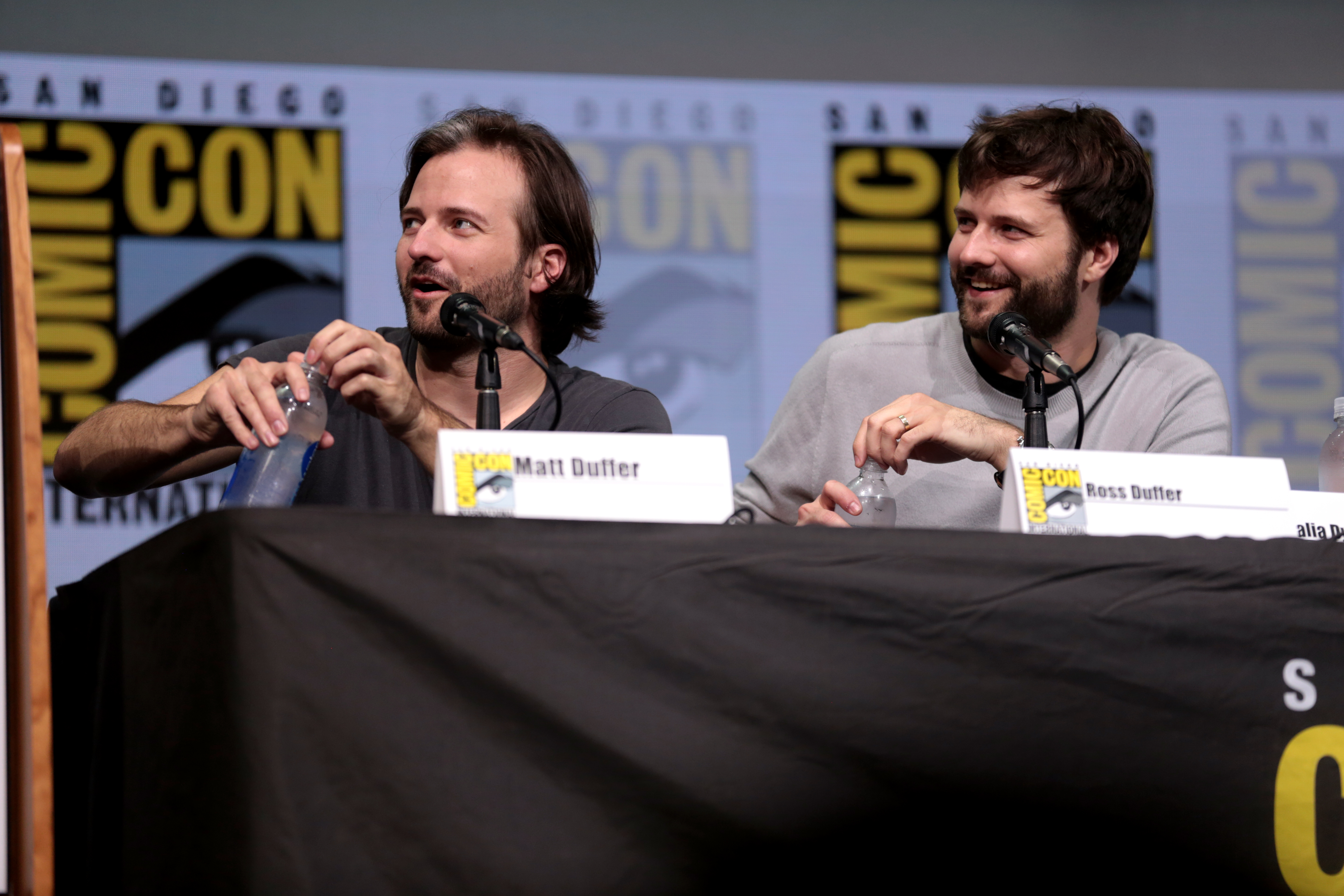 Matt and Ross Duffer speaking at the 2017 San Diego Comic Con International, for "Stranger Things", at the San Diego Convention Center in San Diego, California.